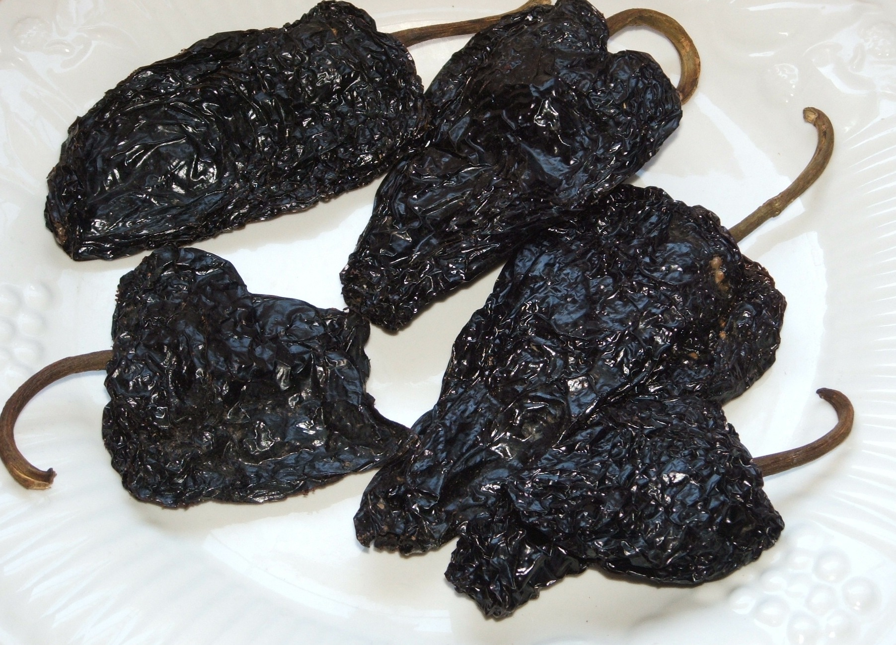 Mulato chile pods (dried)